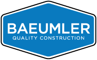 Baeumler Construction logo